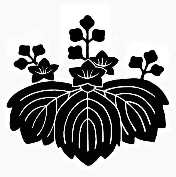 A Japanese family coat of arms. Kamon Tosa Kiri in Japanese.